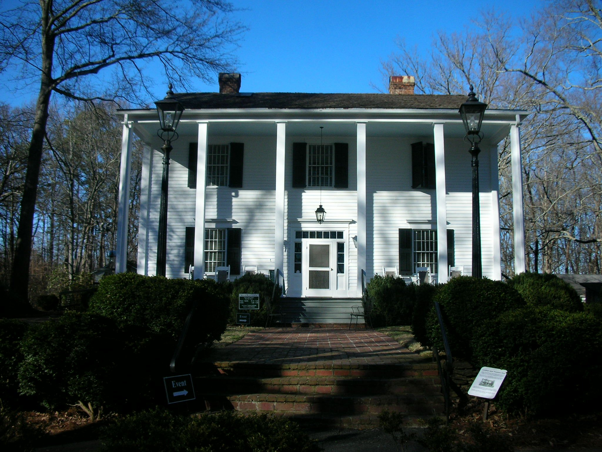 Archibald Smith Plantation Home circa 1845, located in Roswell, Georgia.